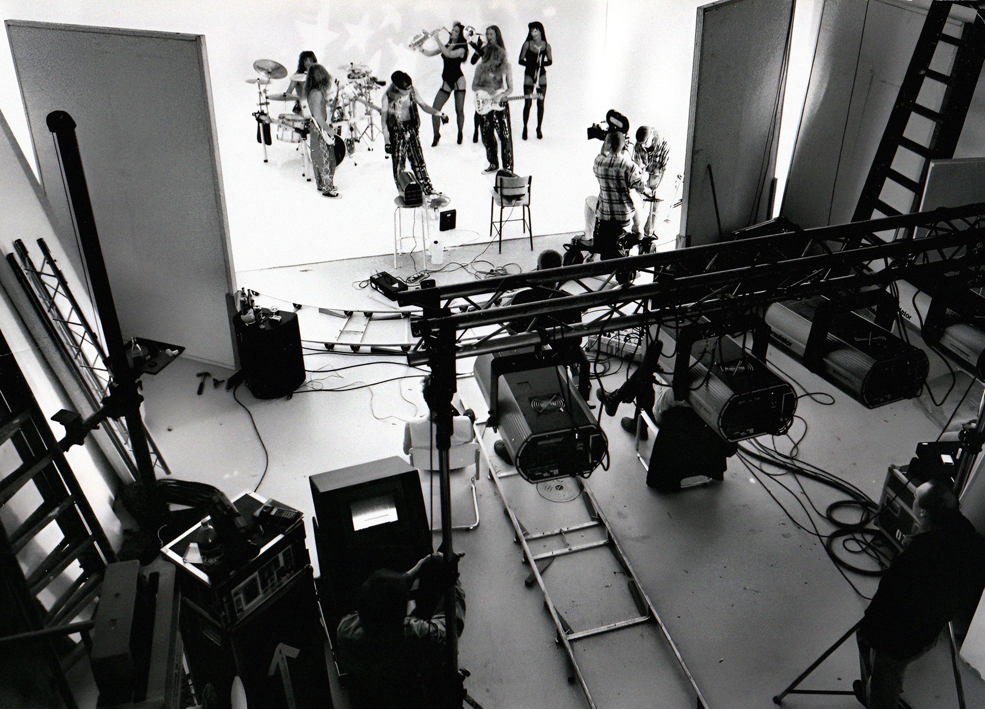 The Swedish rock band Bewarp recording a music video in Malmö, Sweden, in January 1992.